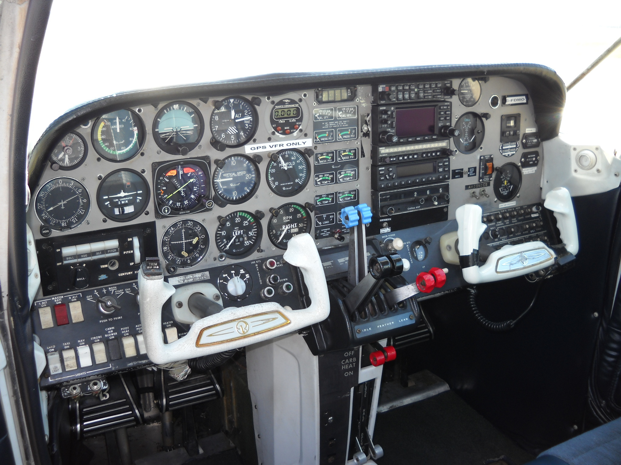 The instrument panel of 1976 Beechcraft 76 Duchess C-FDMO